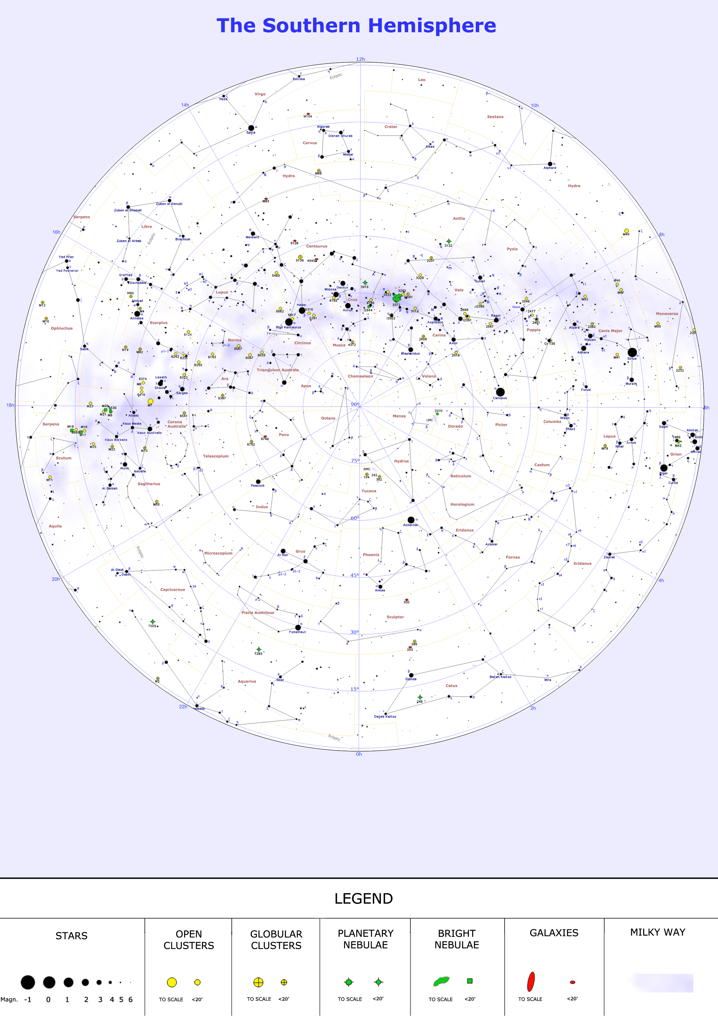 Full map of the Southern celestial hemisphere.